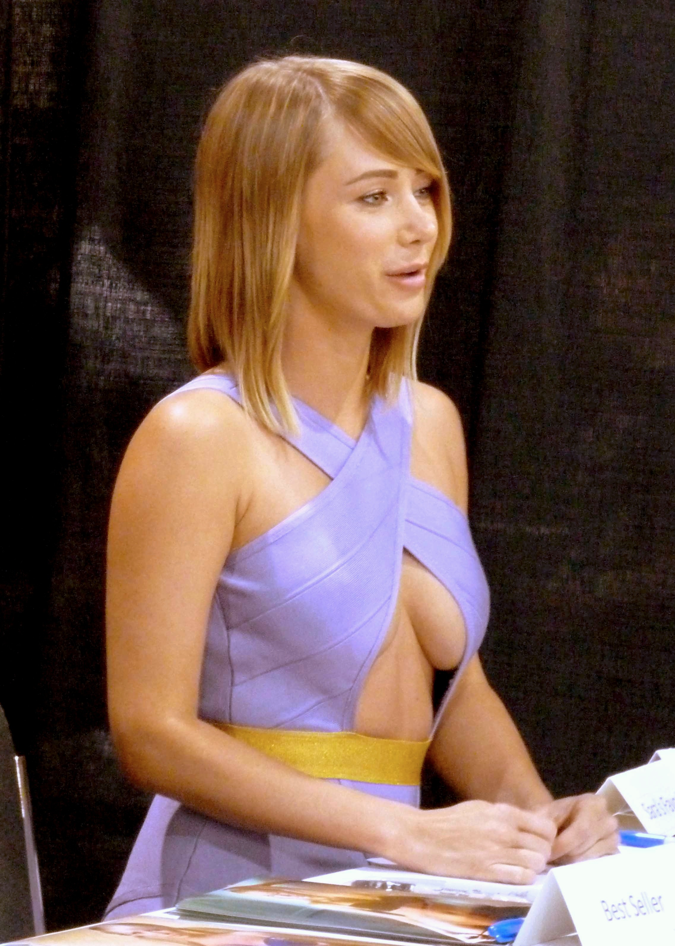 Underwood in 2013